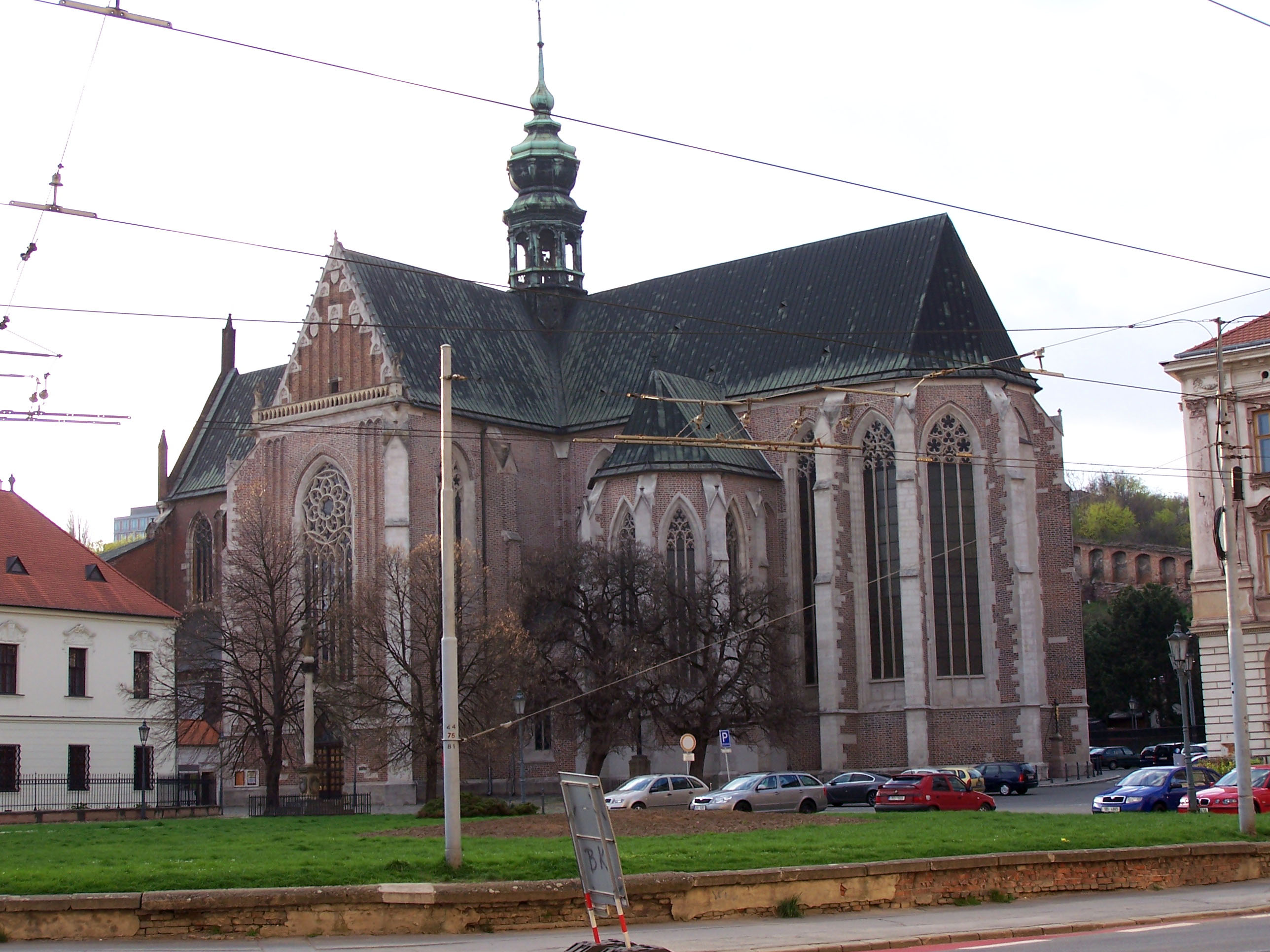 Basilica of the Assumption of Our Lady in Brno, Czech Republic